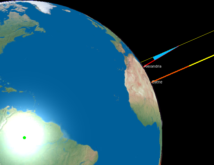 Measurements taken at Alexandria and Syene. Eratosthenes calculated the circumference of the Earth without leaving Egypt. Eratosthenes knew that on the summer solstice at local noon in the Ancient Egyptian city of Swenet (known in Greek as Syene, and in the modern day as Aswan) on the Tropic of Cancer, the sun would appear at the zenith, directly overhead (he had been told that the shadow of someone looking down a deep well would block the reflection of the Sun at noon). He also knew, from measurement, that in his hometown of Alexandria, the angle of elevation of the sun was 1/50th of a circle (7°12') south of the zenith on the solstice noon. Assuming that the Earth was spherical (360°), and that Alexandria was due north of Syene, he concluded that the meridian arc distance from Alexandria to Syene must therefore be 1/50 = 7°12'/360°, and was therefore 1/50 of the total circumference of the Earth.